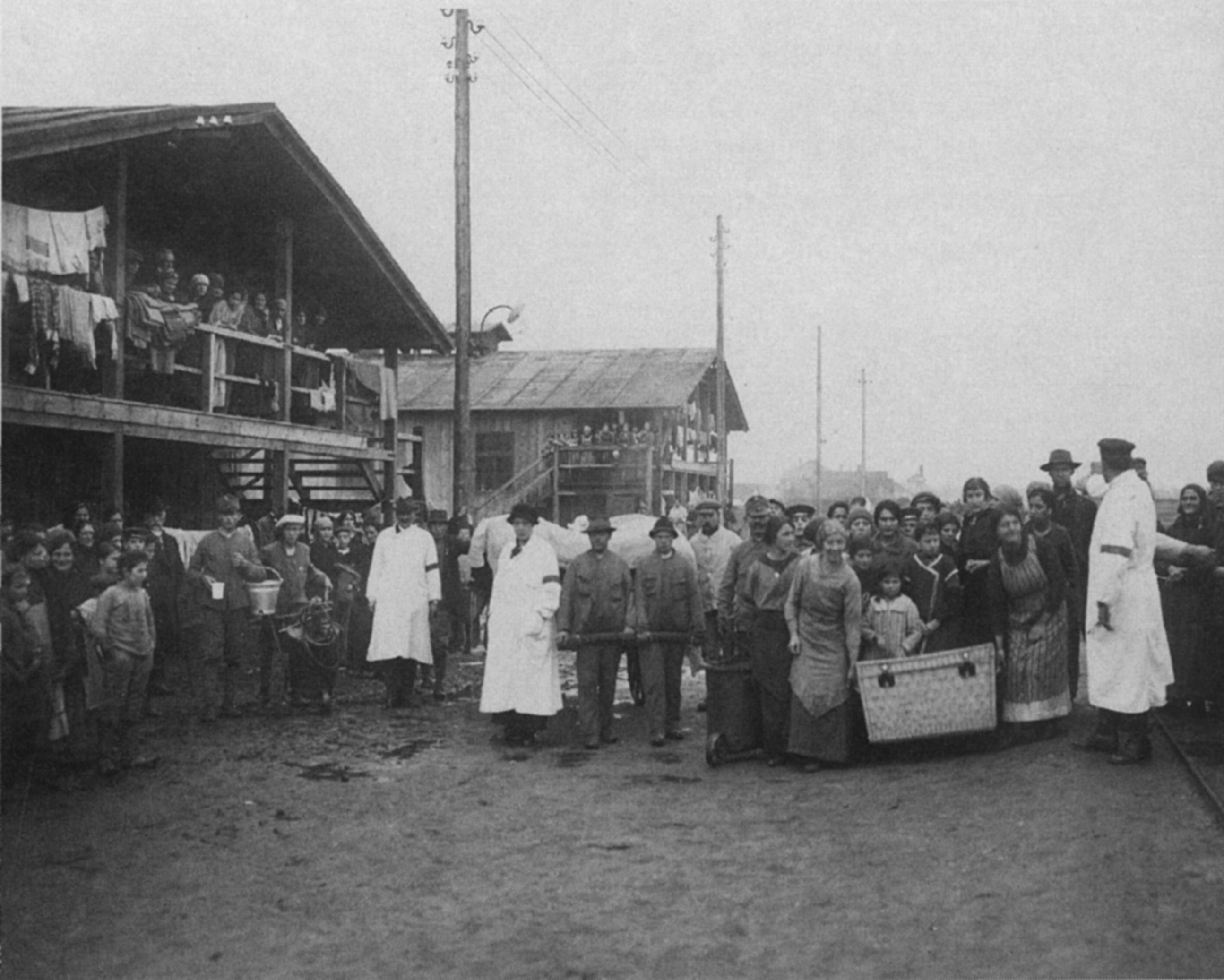 Petschar, Friedlmeier, Steiermark in alten Fotografien, Ueberreuther Verlag Wien. Scanprojekt Community Projektbudget 2012 This scan or this PDF-file was created within the GLAM-project Bookscanning, supported by Wikimedia Germany and Wikimedia Austria as a part of the community-project to capture books, documents and pictures which are not eligible to copyright or for which the copyright has expired. This document describes or depicts an object which is located in Austria today. Texts are written German language. Send requests for uncompressed scans to Hubertl. This work is in the public domain in its country of origin and other countries and areas where the copyright term is the author's life plus 100 years or less. You must also include a United States public domain tag to indicate why this work is in the public domain in the United States. This file has been identified as being free of known restrictions under copyright law, including all related and neighboring rights.